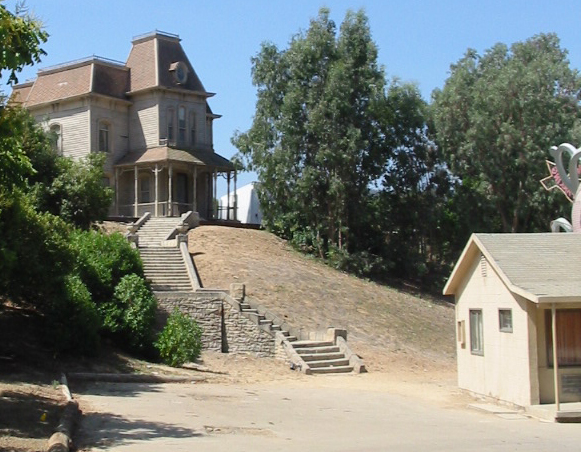 Psyco set